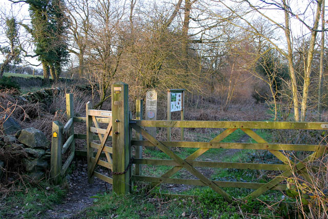 Burrow Wood The entrance to Burrow Wood, the southern most part of Charley Woods. This shows the public footpath that goes through the wood towards Charley Hall and SK4815. See 348683 for more information.